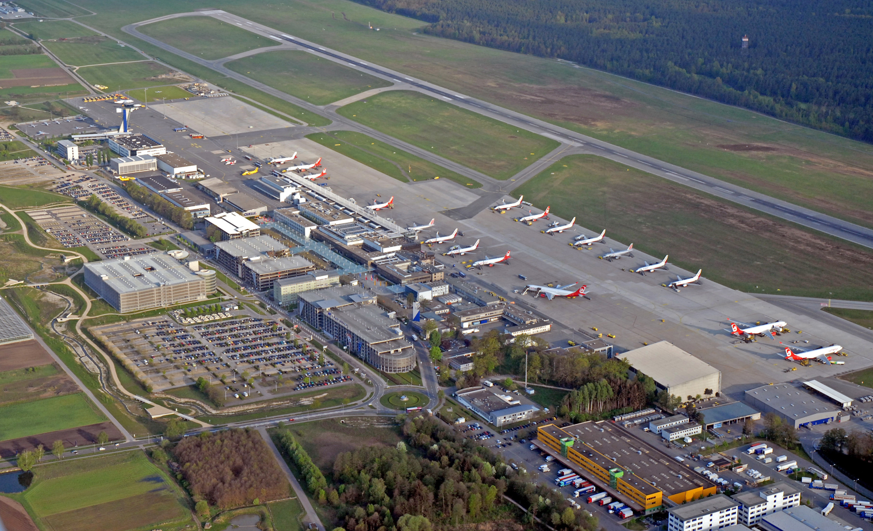 aerial shot of Nuremberg Airport